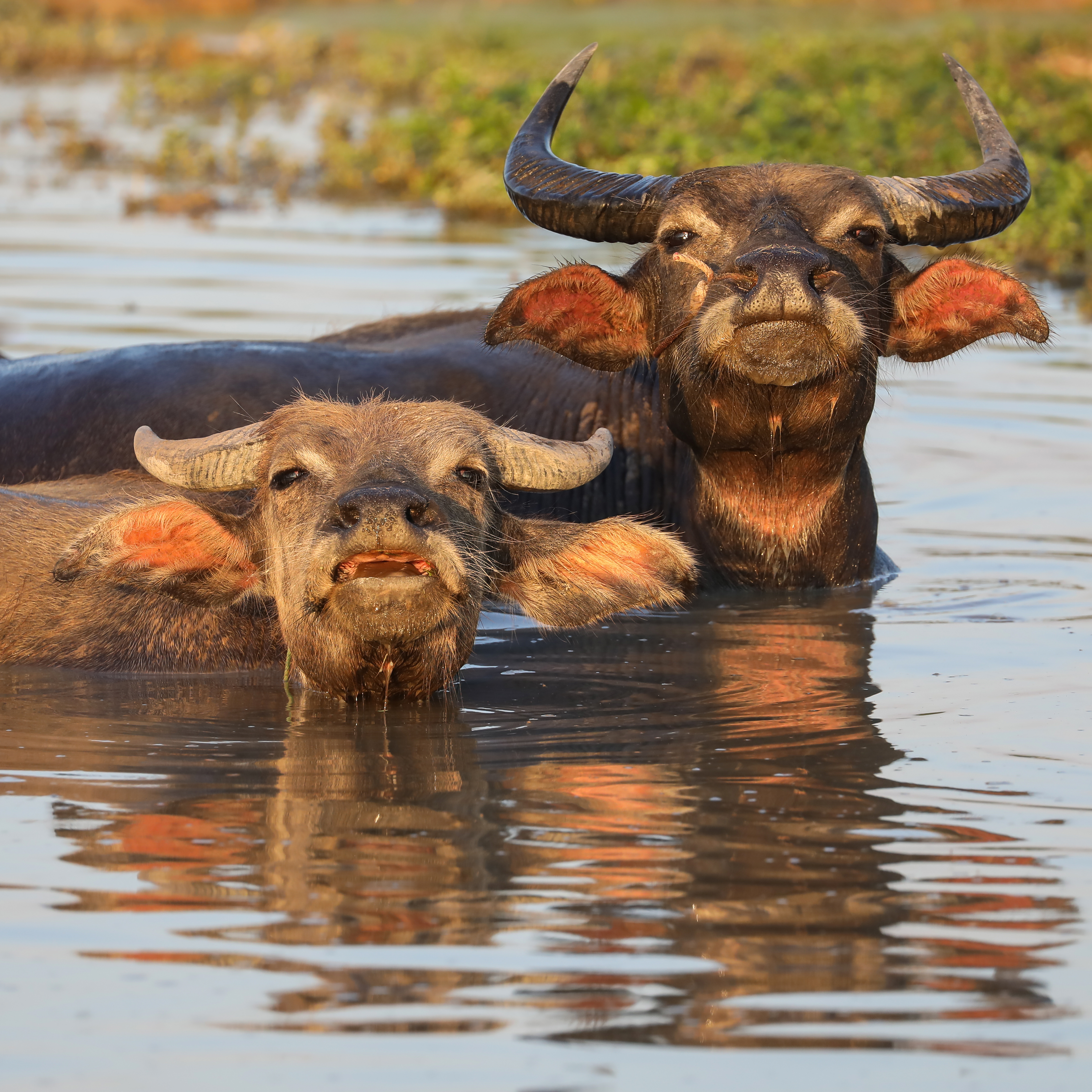 Two Bubalus bubalis (water buffaloes) bathing at sunset in a pond of Don Det (Si Phan Don, Laos) rising high their snouts and looking at viewer. These buffaloes are often cooling themselves in the water (or in the mud), when the weather is hot. One of these domestic animals has a nose rope to facilitate its handling during the labour season, though here in May they are not yet attached, and thus free to move around the island. Focus stacking from 2 pictures.